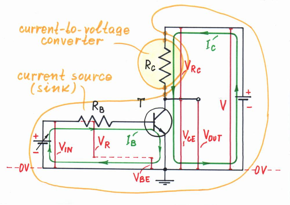 The collector resistor Rc acts as a current-to-voltage converter